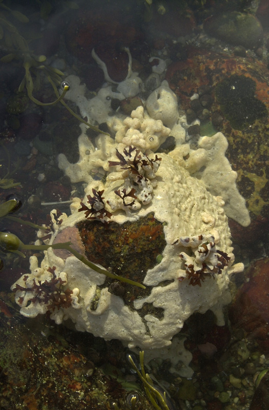 Image DB_STP_DSC0146 Tunicate colonies of Didemnum sp. encrusting a boulder and overgrowing dark red algae and pink calcareous algae. Sandwich tide pool (41 deg 46.42 min N lat, 70 deg 29.30 min W lon). Water depth, intertidal range to 11 feet (3.4 m). Collected at low tide. December 4, 2003. Collectors: Mary Carman and Page Valentine. Photo credit: Dann Blackwood, U.S. Geological Survey.